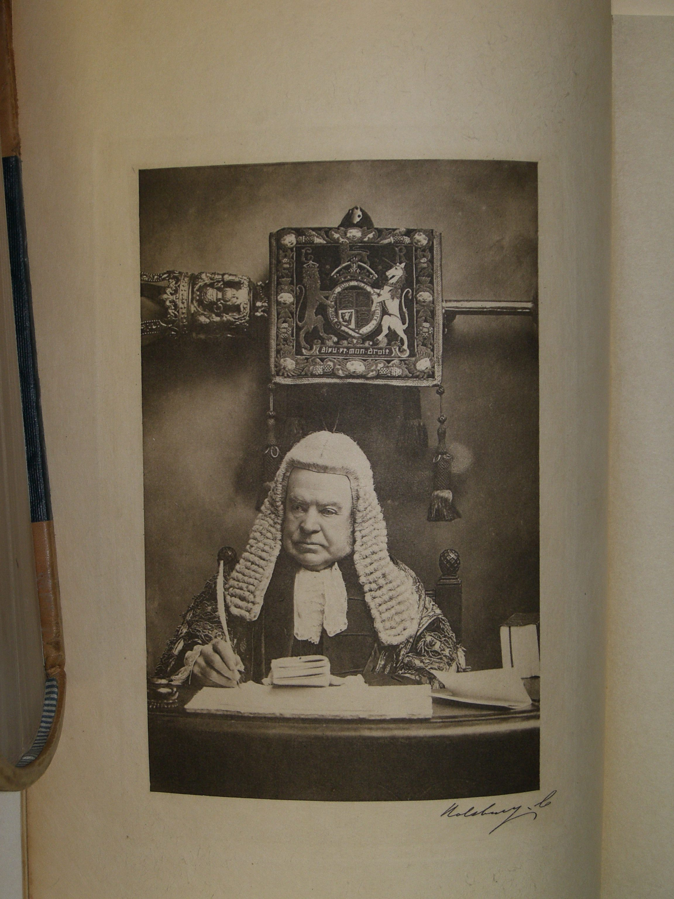 Photo of image of Hardinge Giffard, 1st Earl of Halsbury from Halsbury's Laws of England, 1st ed, Vol 1. See also Image:Cover page halsburys.jpg